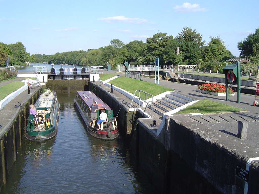 Sunbury Locks, River Thames (copy of own work on English wiki)